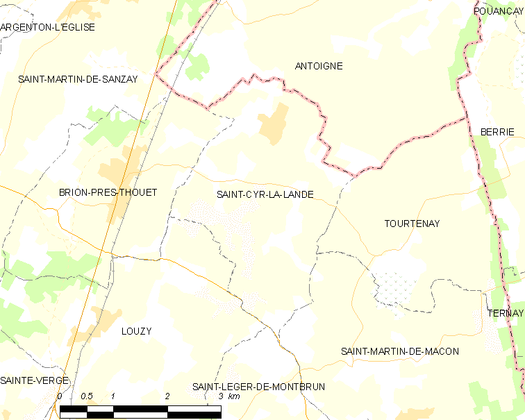 Map of French municipality Saint-Cyr-la-Lande